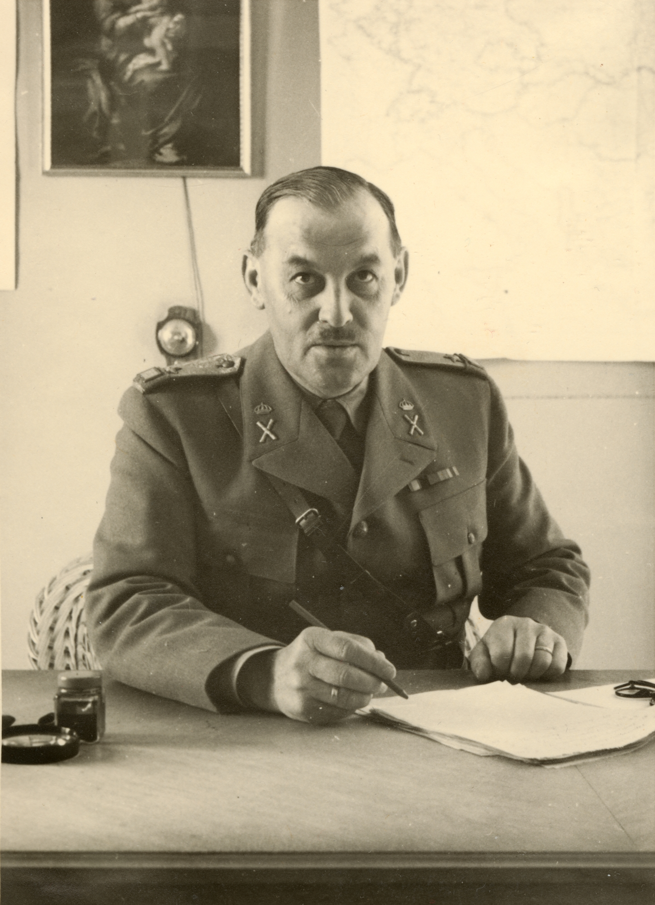 Preparedness service April-Oct 1940 at the army postal (post) service. Chief of Staff: Major General Axel Bredberg.